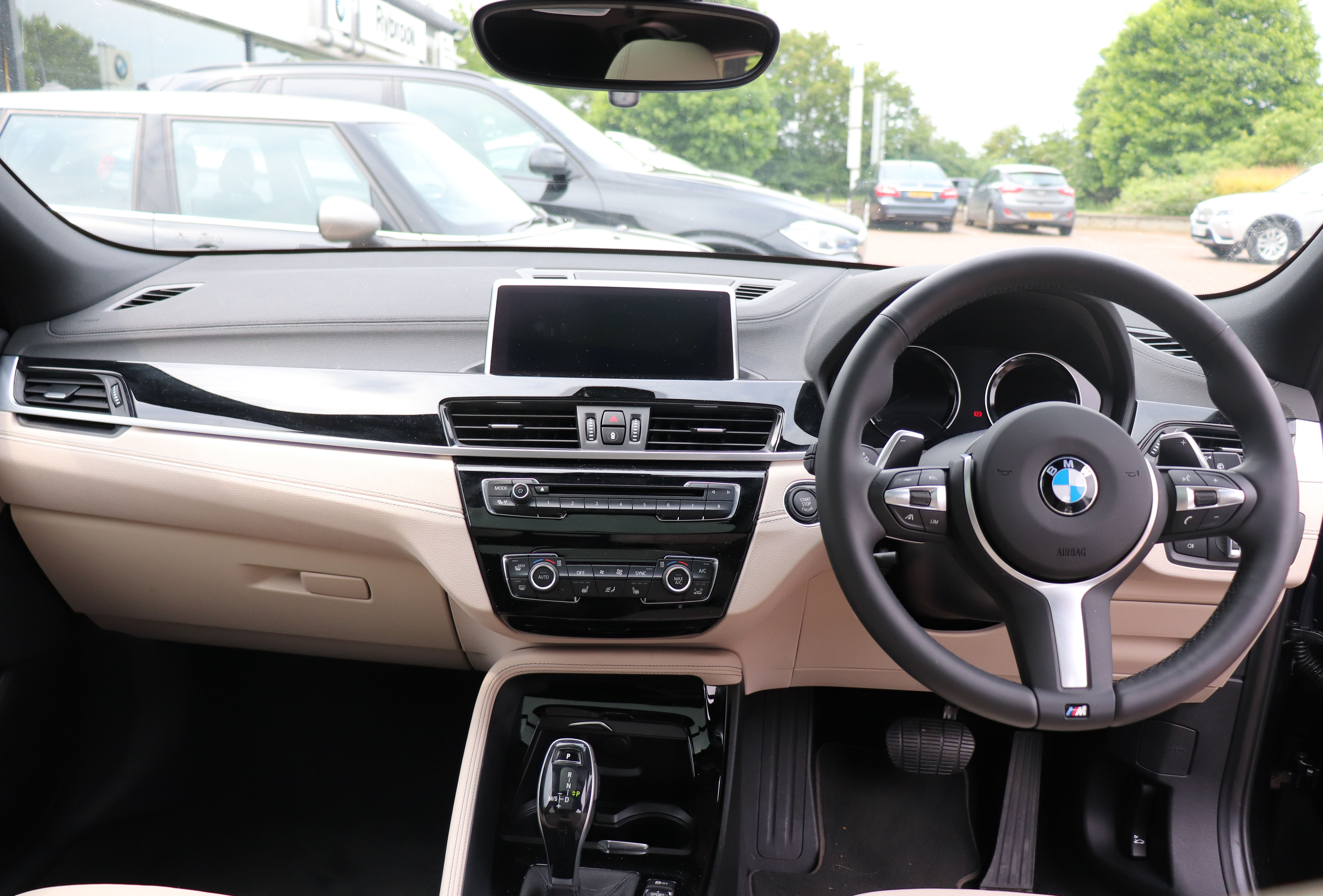 2018 BMW X2 xDrive 20d M Sport X Automatic 2.0 Interior Taken in Rybrook BMW Warwick